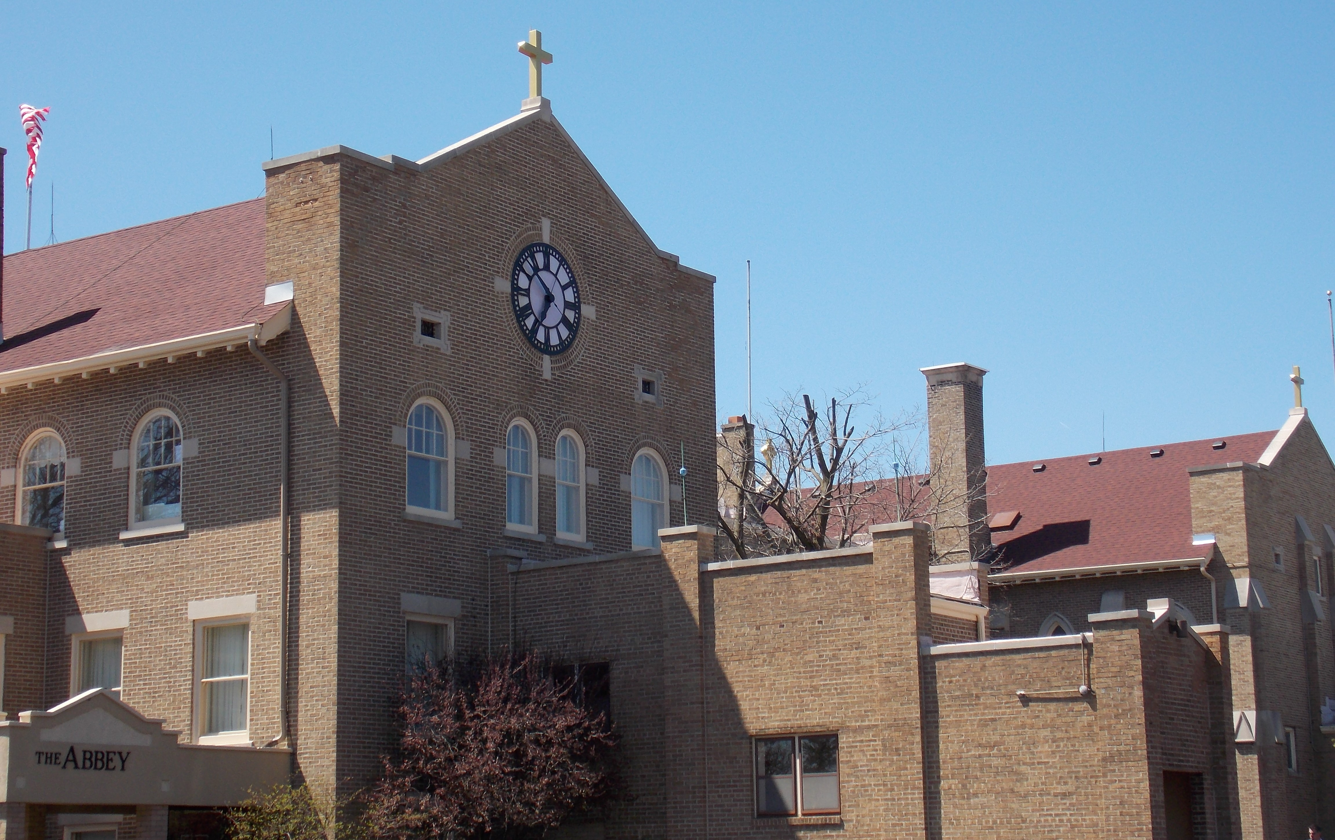 The Abbey is a former Carmelite convent in Bettendorf, Iowa